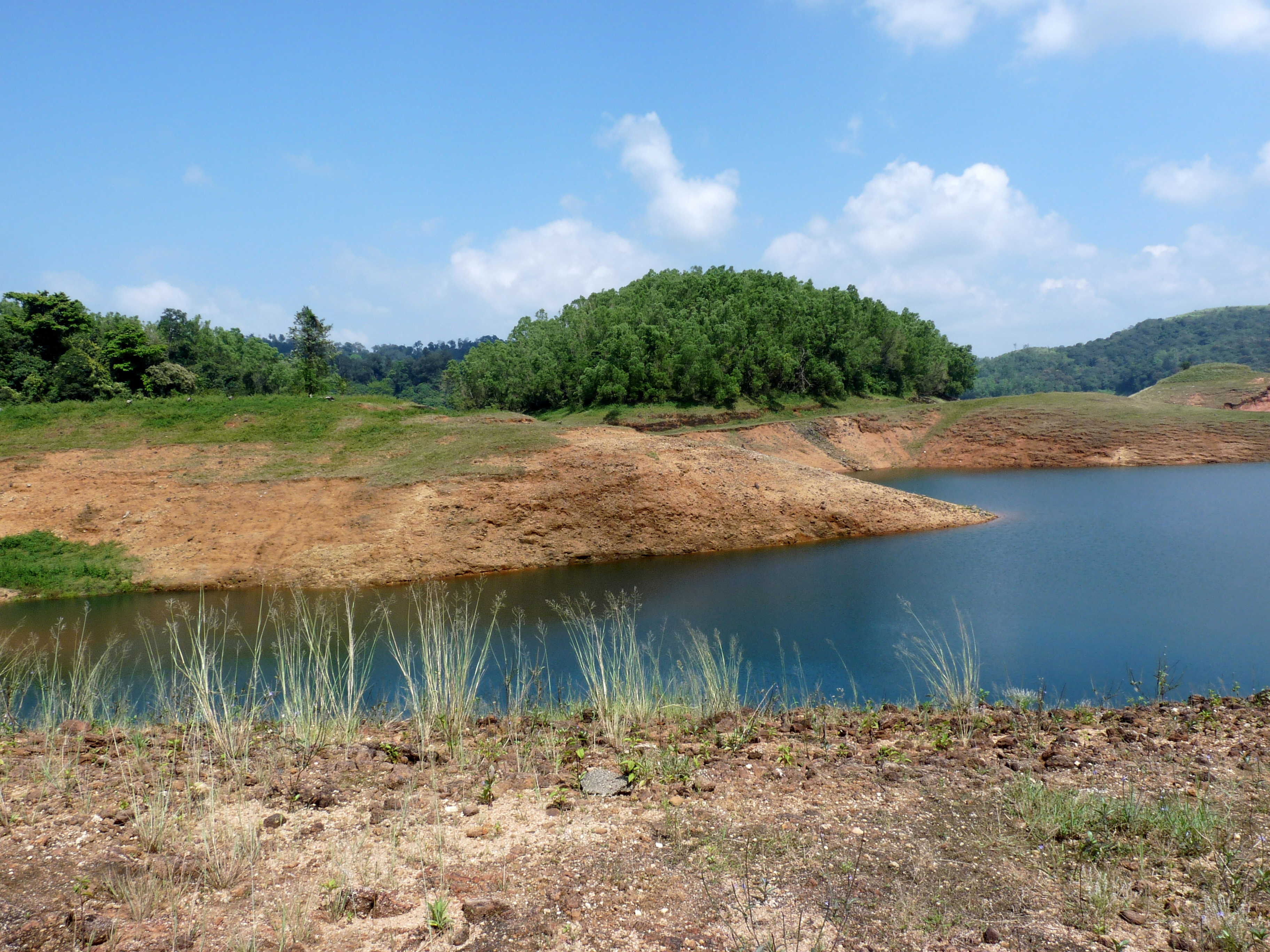 View of Kulamavu dam reservoir. It is part of Idukki Reservoir formed by three dams; Cheruthoni, Idukki and Kulamavu, extends to 33 square kilo meters.